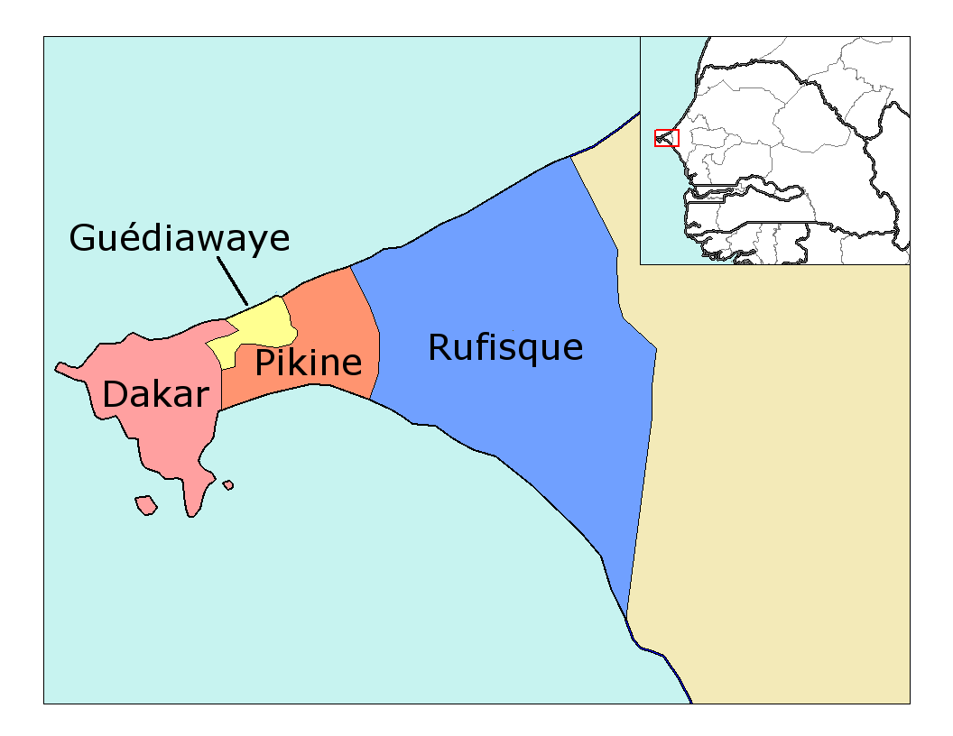 Map of the departments of Dakar region in Senegal.